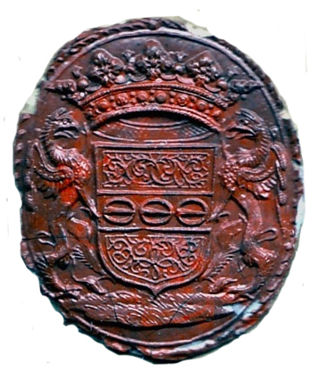 Walter Leslie (year ~1646) seal with Clan Leslie crest